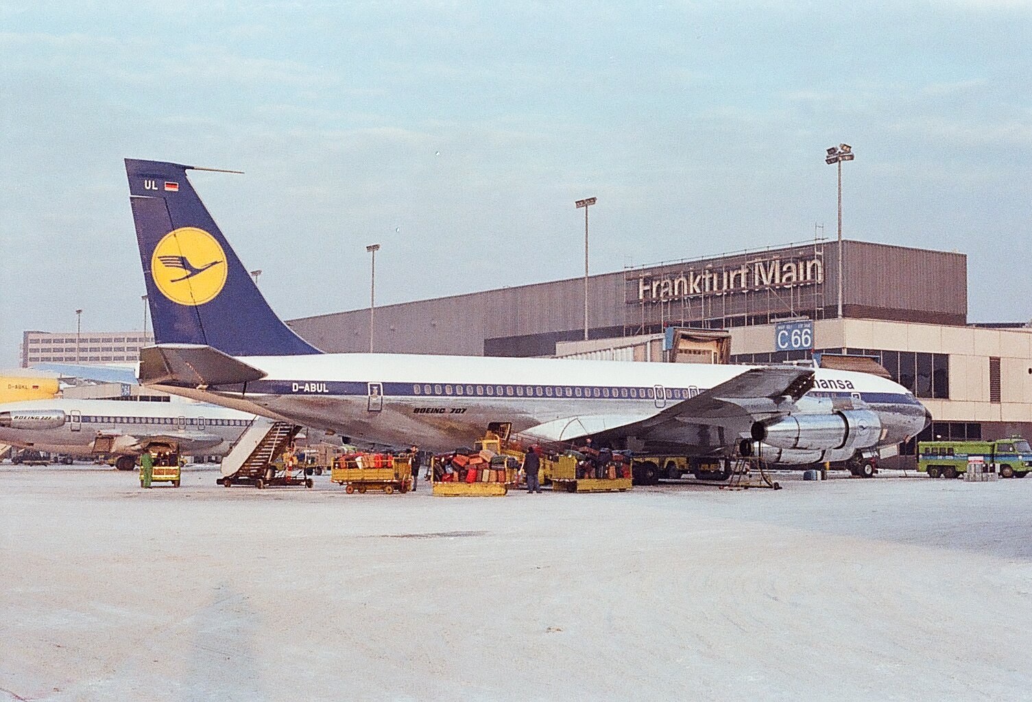 Boeing 707-330B D-ABUL of Lufthansa at FRA (Flughafen Frankfurt)